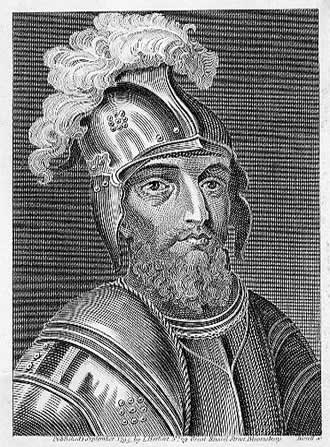 John Stewart, Earl of Buchan. Engraving taken from a portrait in the Chateau de Chambord